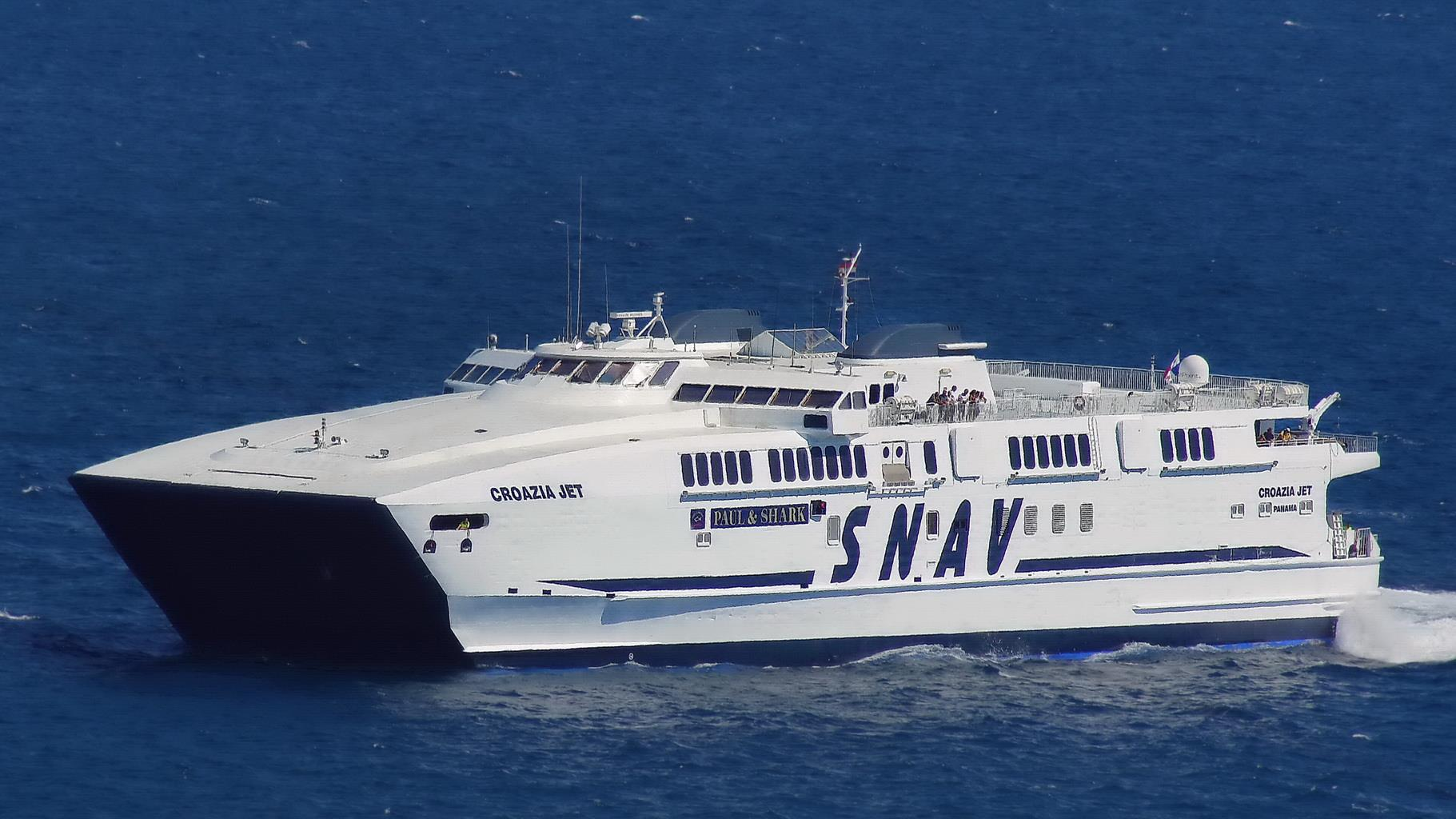 Croazia Jet arriving to the port of Split. Time-space: Jul 8, 2012; CEST 15:54:17; N 43°29'55" E 16°25'58".